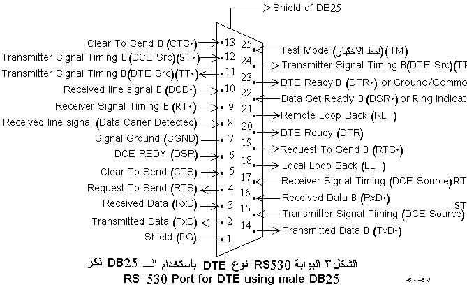 serial ports. 232 simpler DE-9 only since the 1984 AT [post-xt, IBM 5170, with a 286] still sh** and hate coz vslow& +-12v anyway - there is a 3-wire jack subset too, &yost unix 8p8c(eth) 'phoneplug', &a DC 37 pin version too: now that's not for 232 but another, with +-6v 'only' (still huge swing) and nice diffpairs; shock: it has a complementary de9 connector too to fit yet moar lulz! not even the C shell was long enough for 2 wires... ;-); and this one's 232-ised version is depicted here; when they realized this ludicruous waste (misengineering? well, not: decades earlier.) is not going to be tolerated in the era of microchips and labor/assembly costs (typinoldtelcotimestotaldisregardformassmfgringsimplicity&chpness *pin counts, lessstandard sizes, multiple conns etc to bow to the vacuum-tube and mech tty legacy. d-sub tho is inherently expensive).